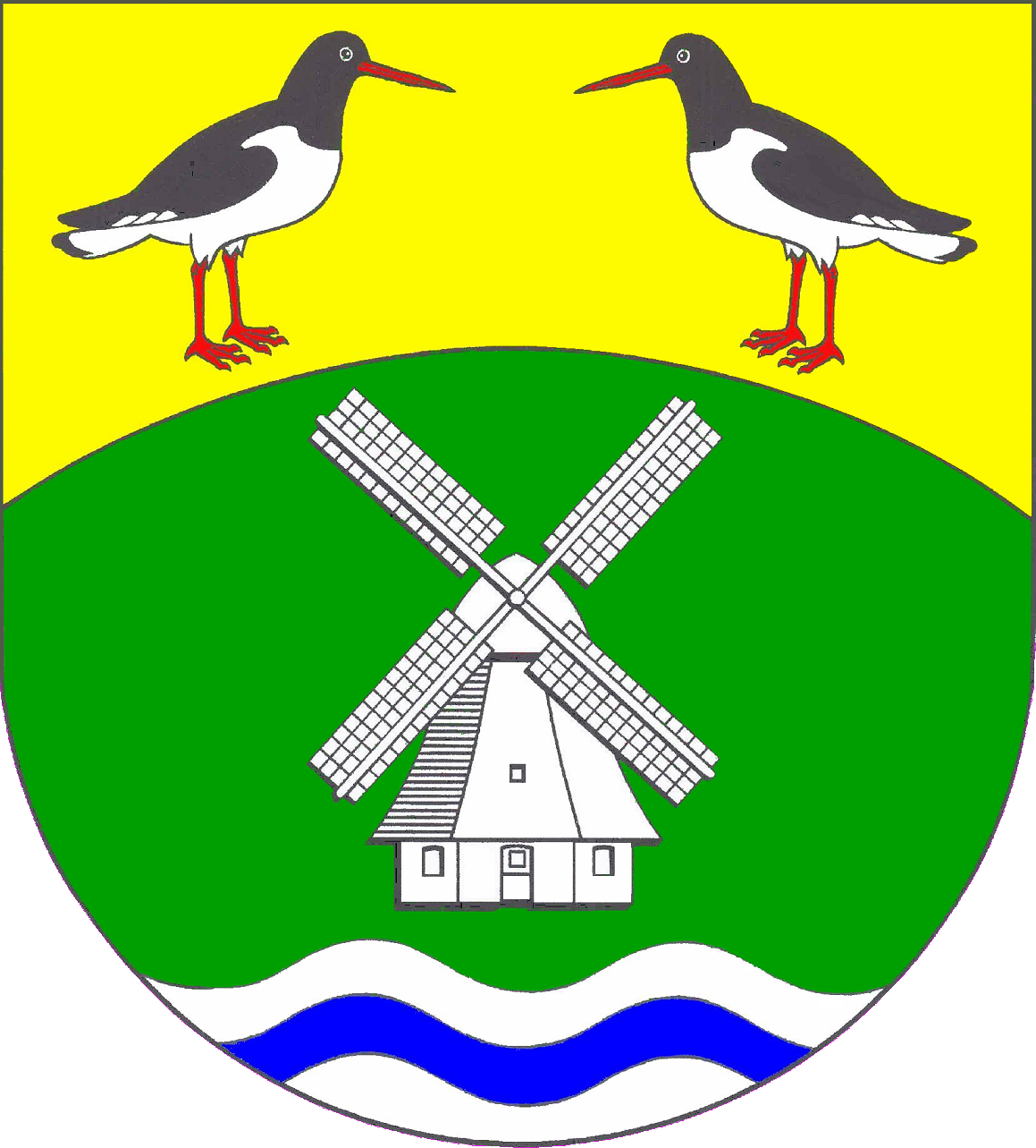 Coat of arms of the municipality Wrixum in Schleswig-Holstein, Germany.